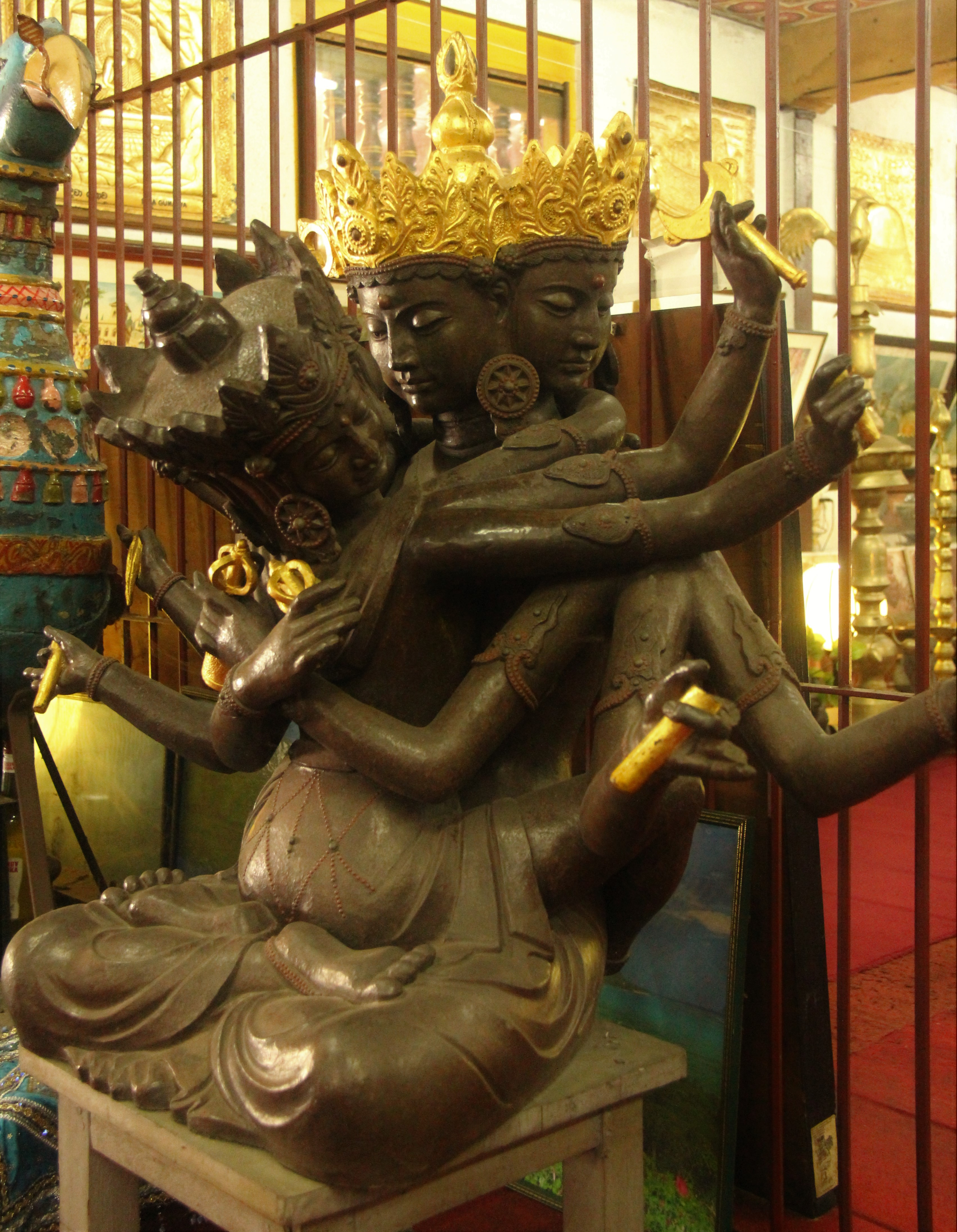 Heruka in Yab-Yum form. Statue on display at the Gangaramaya Temple museum in Colombo, Sri Lanka.